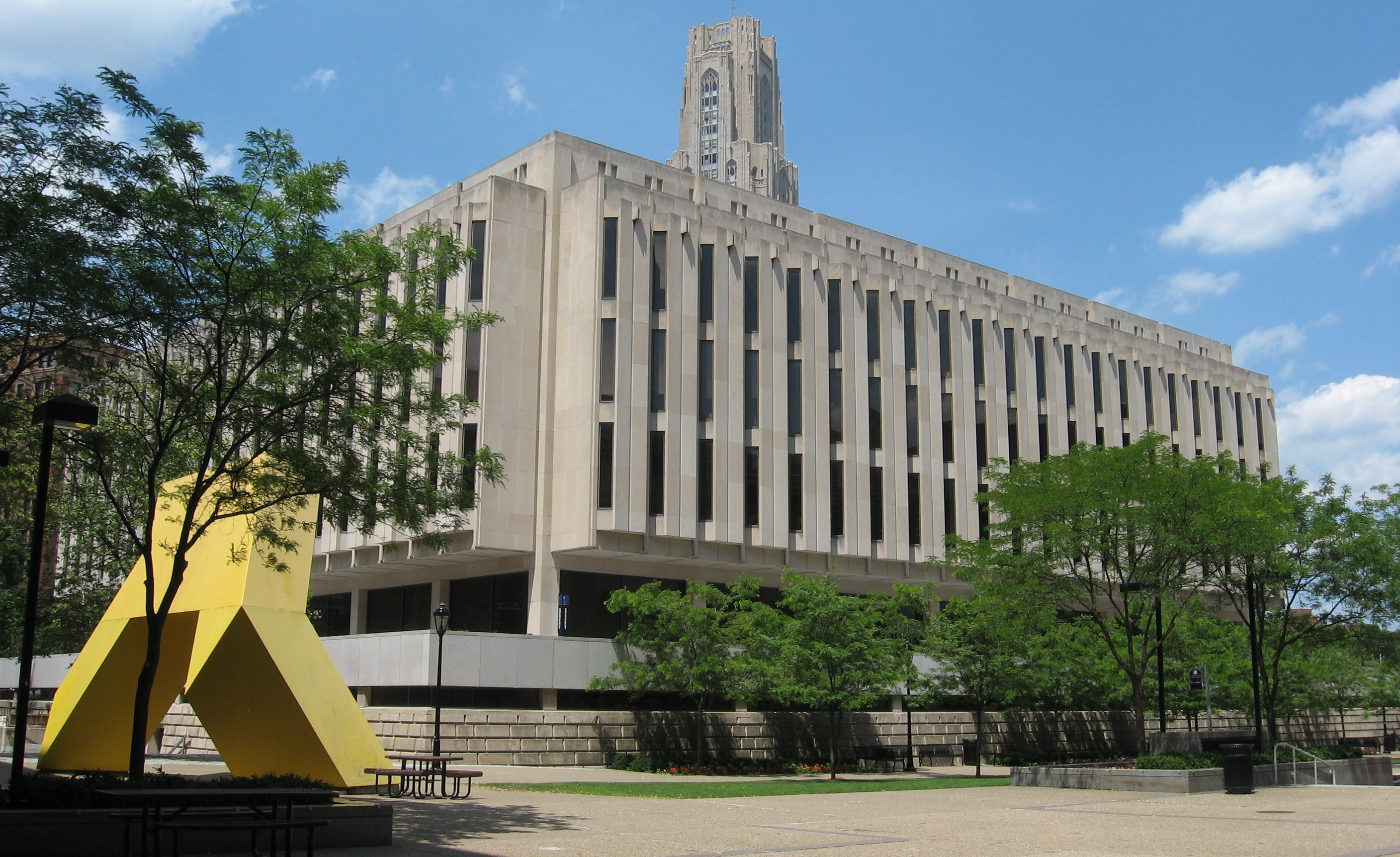 The Hillman Library at the University of Pittsburgh. The Cathedral of Learning is visible behind the Hillman and the sculpture "Light Up" by Tony Smith is visible on the left. 40°26′32.9″N 79°57′14.6″W / 40.442472°N 79.954056°W